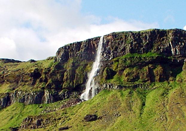 The Kalfárvellir Waterfall in Snæfellsnes / Iceland